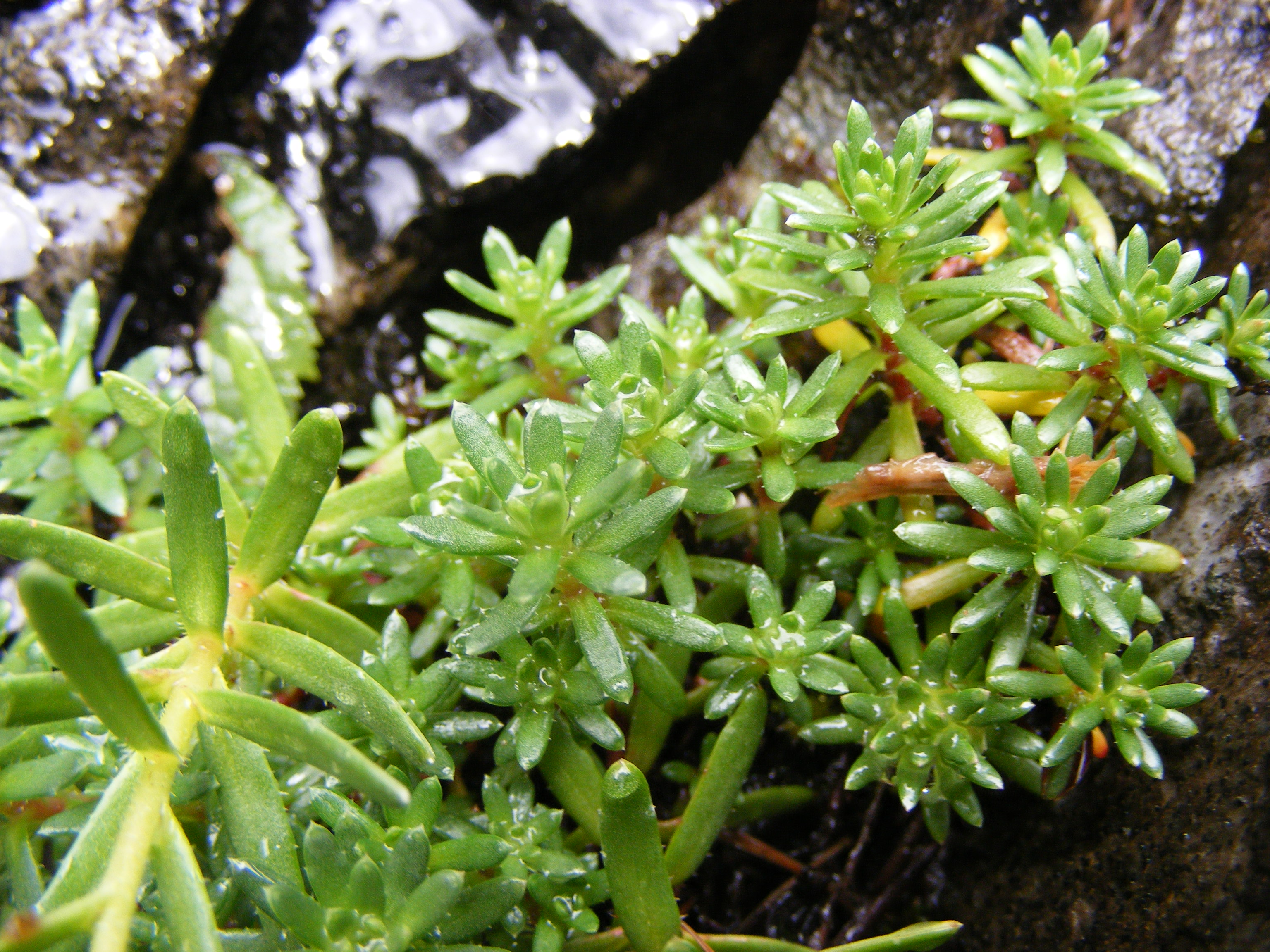 This photo shows Saxifraga aizoides